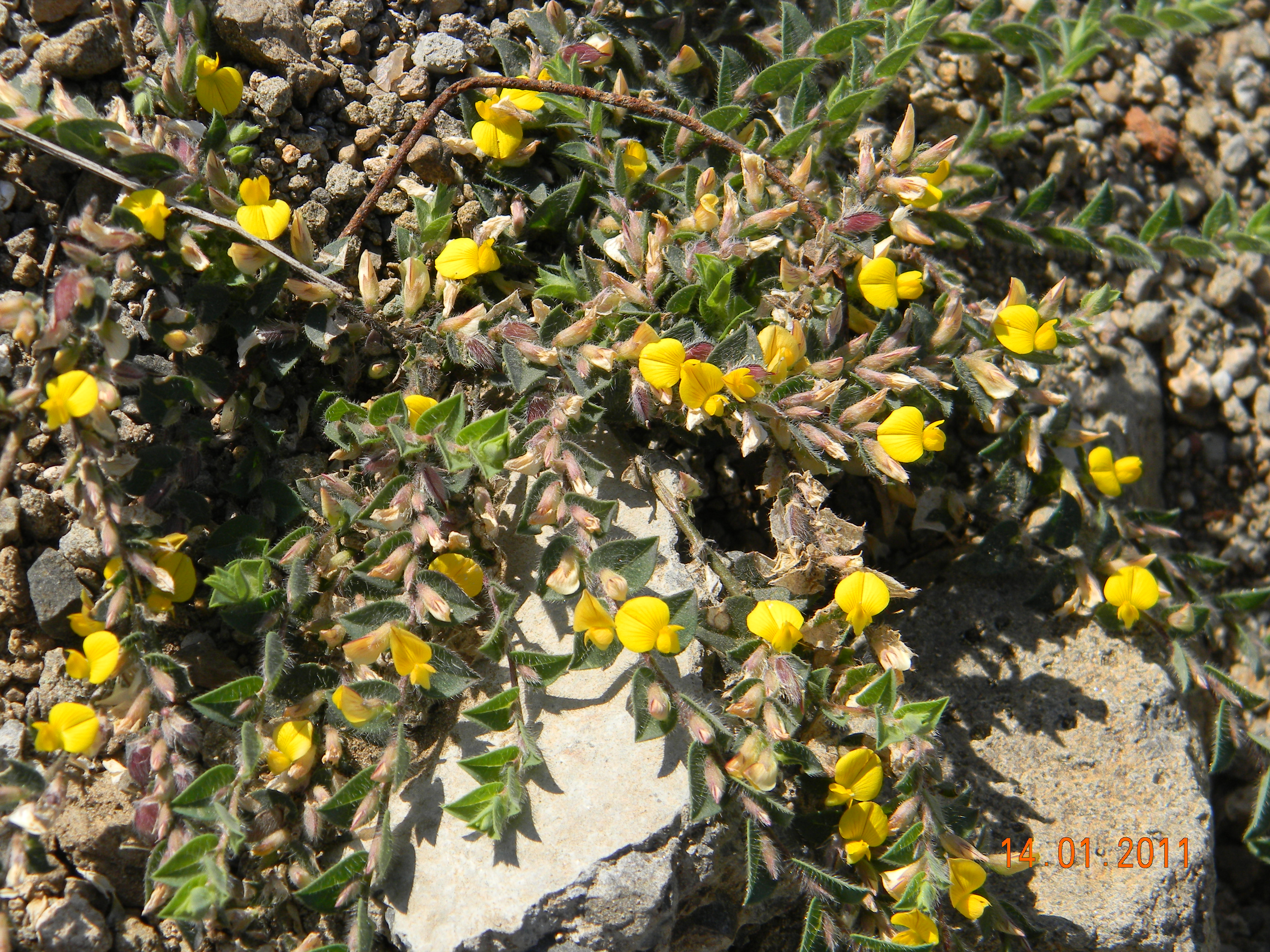 This photograph was taken at Pune.It is a Rattlepod species.